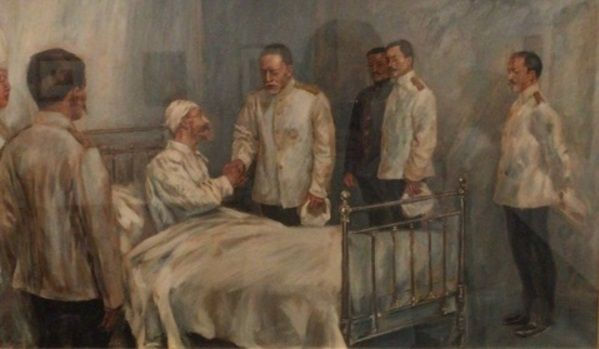 Admiral Togo Visiting Zinovy Rozhestvensky, by Fujishima Takeji, Reimikan, Kagoshima Prefectural Center for Historical Material, Kagoshima, Kagoshima, Japan; the painter is pictured next to the finished painting in 藤島武二画集 岩佐新, 長谷川仁 編 昭和18